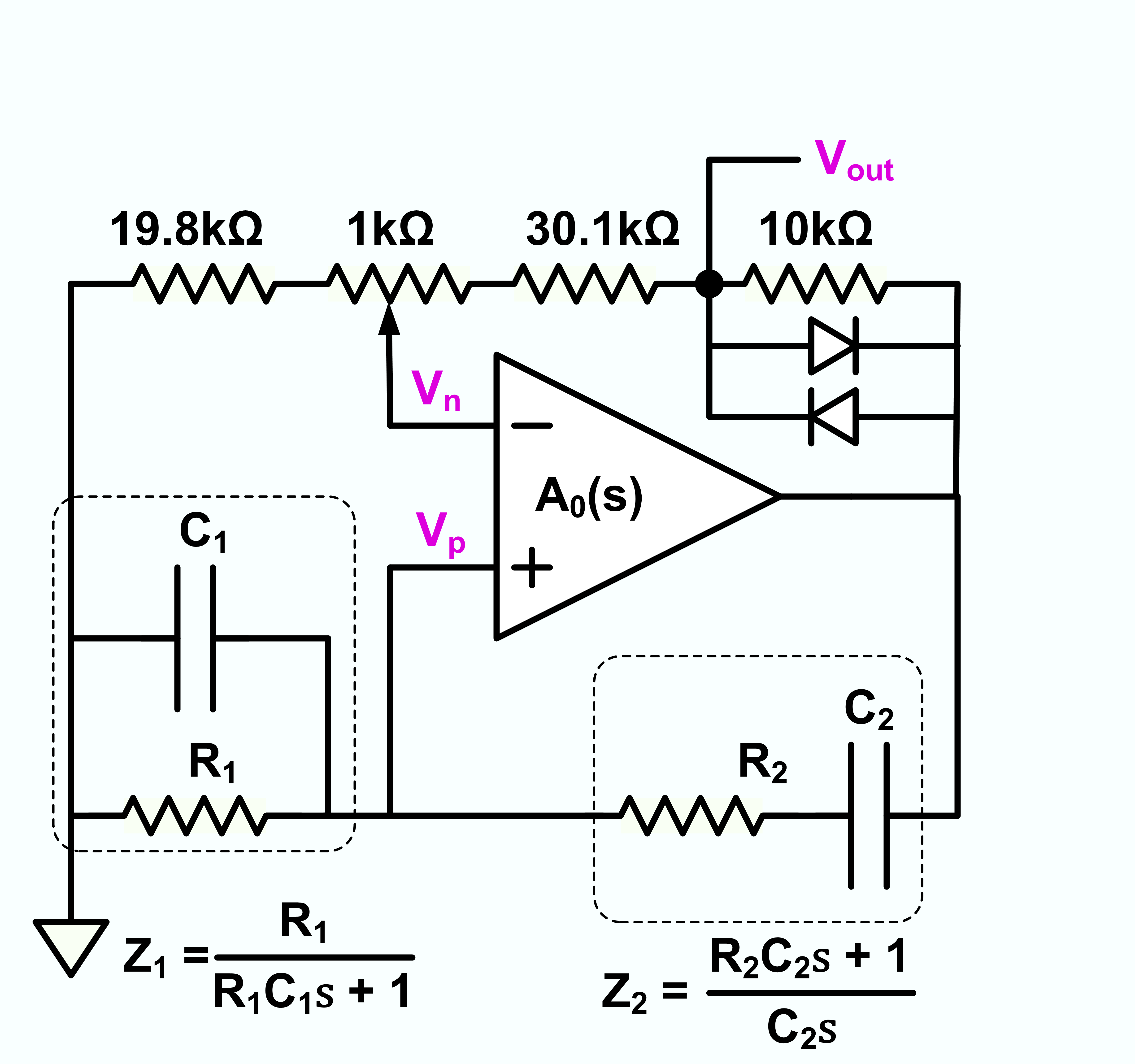 A Wien bridge oscillator that uses diodes to limit the output. The design yield total harmonic distortion of 1% to 5% depending on how carefully it is adjusted.